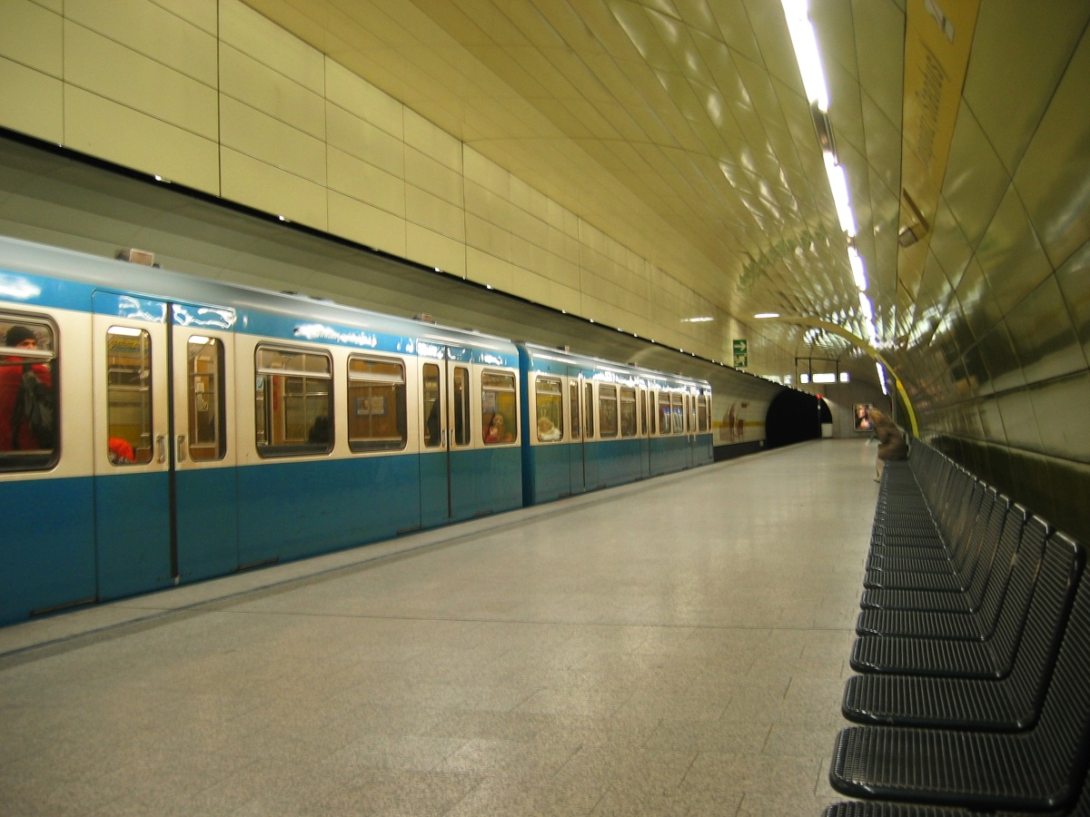 Munich subway station Karlsplatz